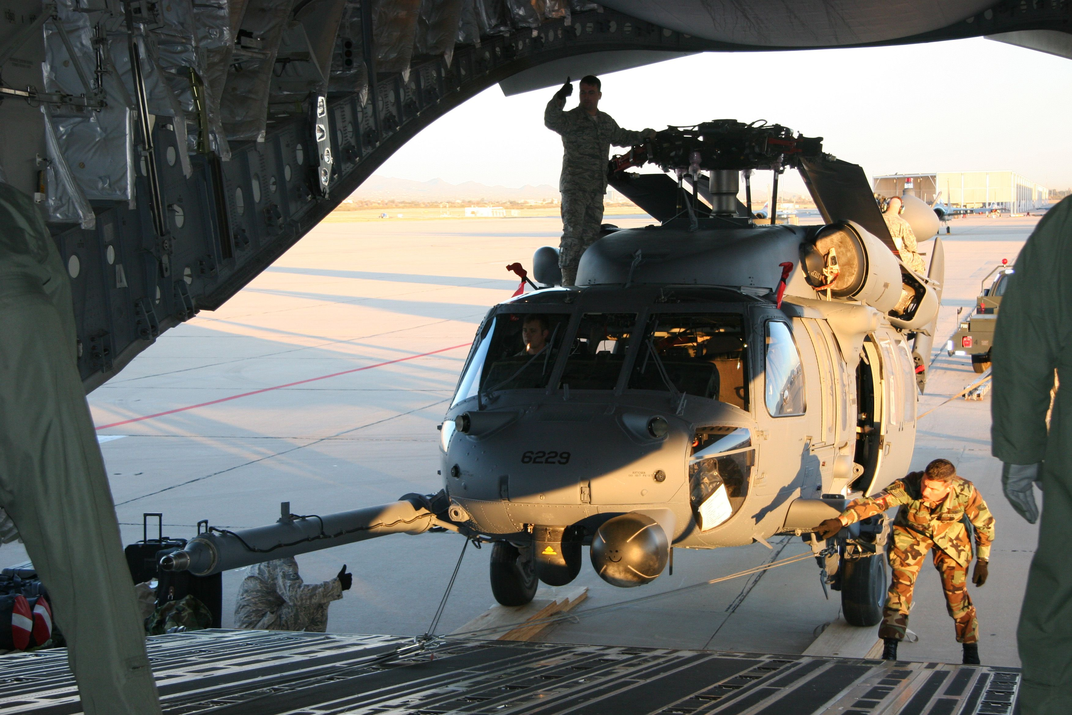 Aircraft maintainters from the 943rd Maintenance Squadron and aircrew members from the 446th Airlift Wing, McChord Air Force Base, Wash., use a powered winch on a 446th AW C-17 to load a HH-60G PAVE HAWK helicopter March 7. Two helicopters were loaded and deployed to Patrick Air Force Base, Fla. to augment launch and recovery of Space Shuttle Discovery. All together, 20 Reservists from the 943rd Rescue Group are supporting this mission. U.S. Air Force photo/Master Sgt. Ruby Zarzyczny